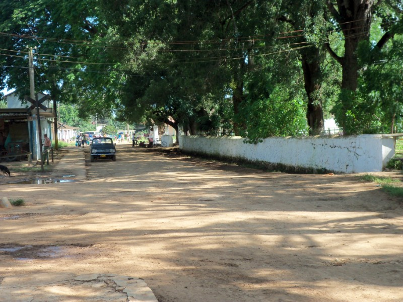 Batey Mañalich